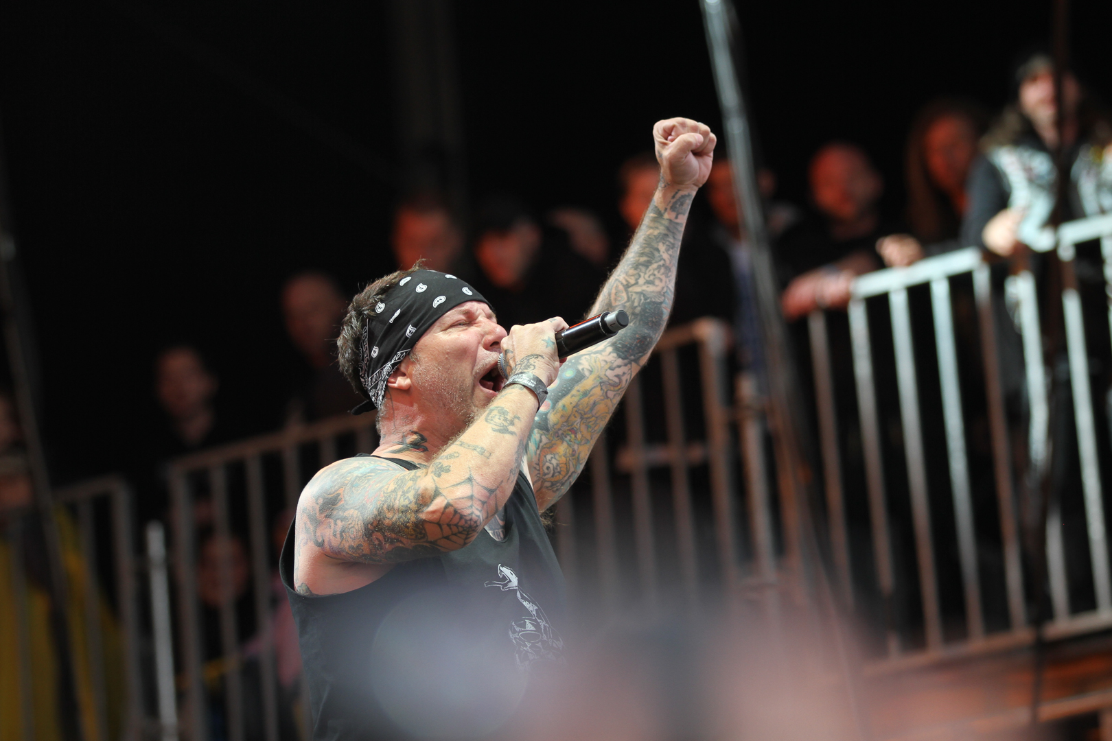 Festivalsommer This photo was created with the support of donations to Wikimedia Deutschland in the context of the CPB project "Festival Summer".